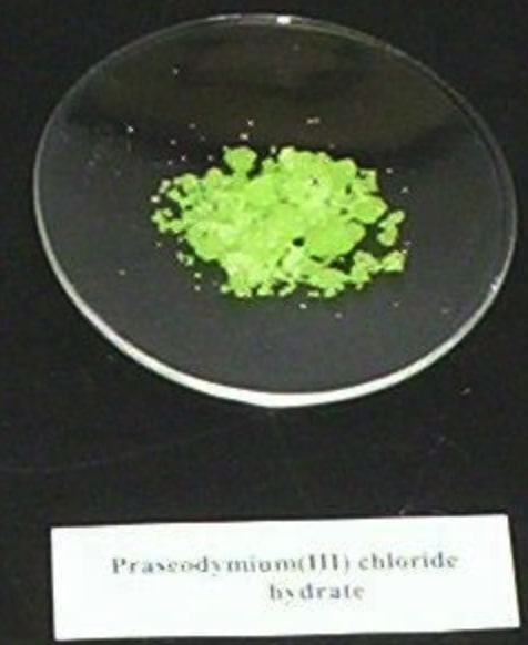 Photograph of a sample of praseodymium(III) chloride heptahydrate, PrCl3·7H2O